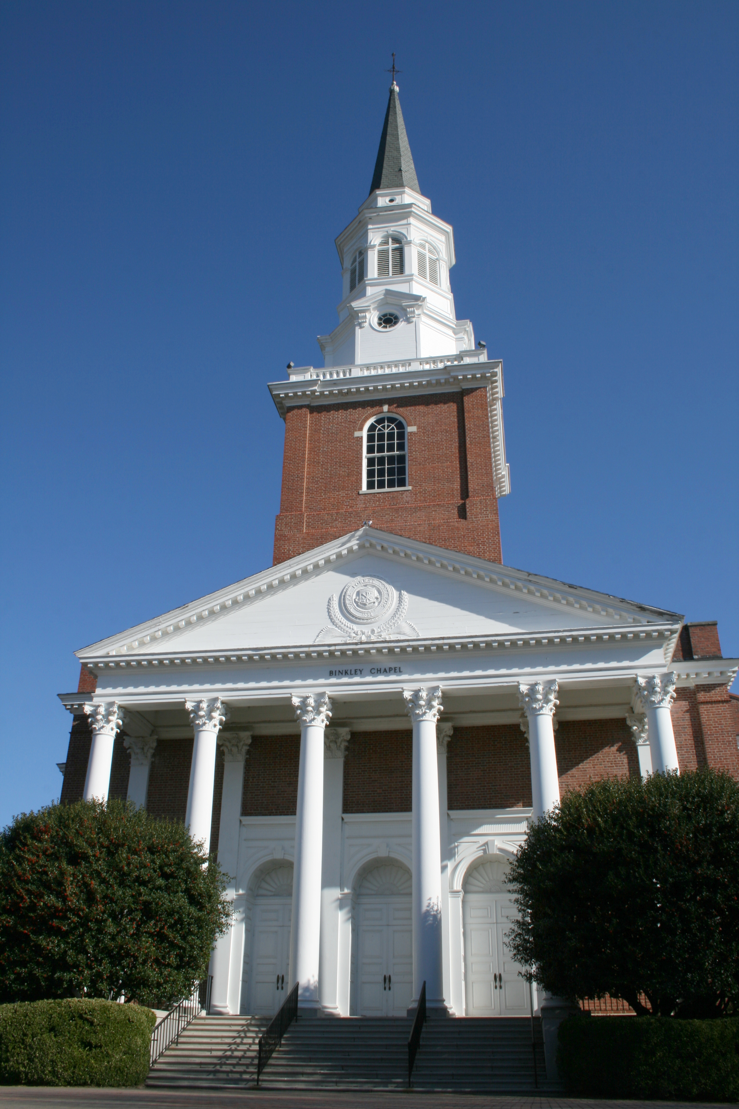 Binkley Chapel at the Southeastern Baptist Theological Seminary in Wake Forest, North Carolina.